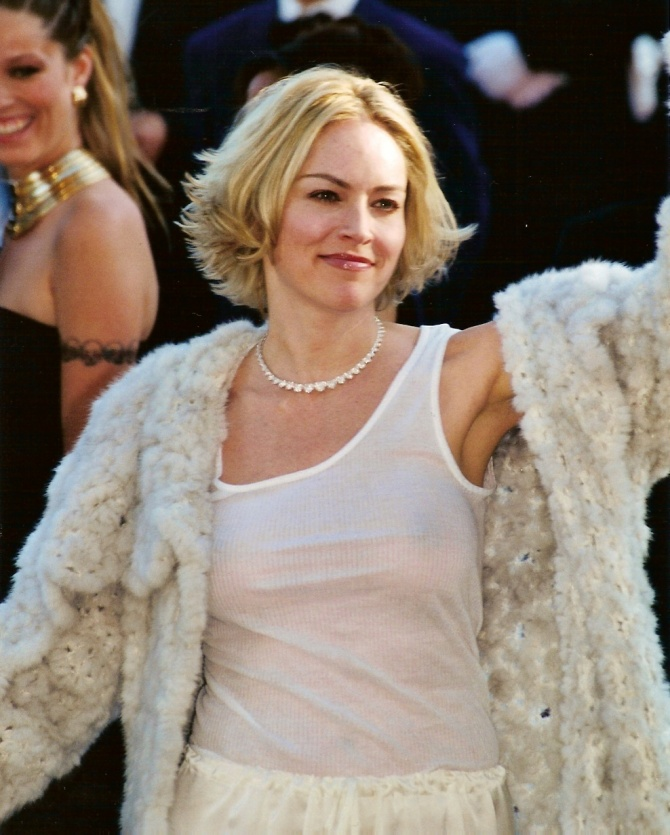 Sharon Stone